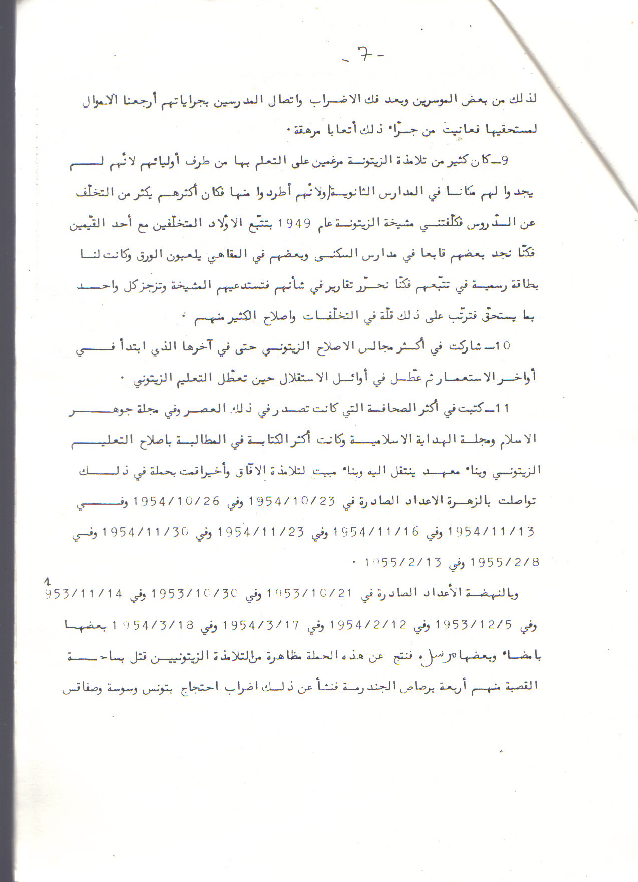 السيرة الذاتية للشيخ الطيب التليلي، ص 7